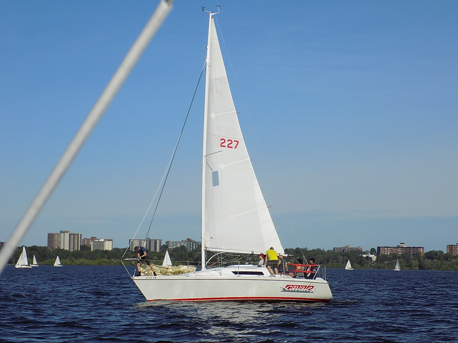 A Laser 28 sailboat named Cavale.